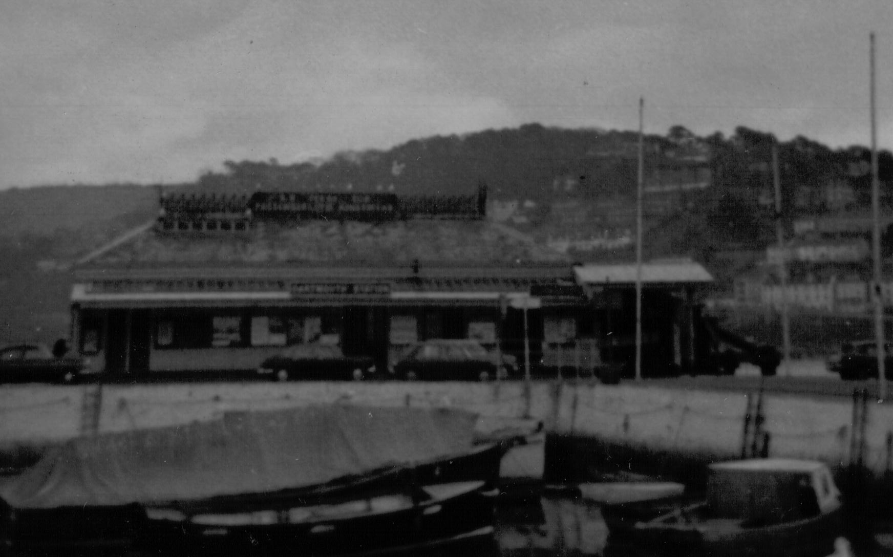 Dartmouth Railway station, Devon